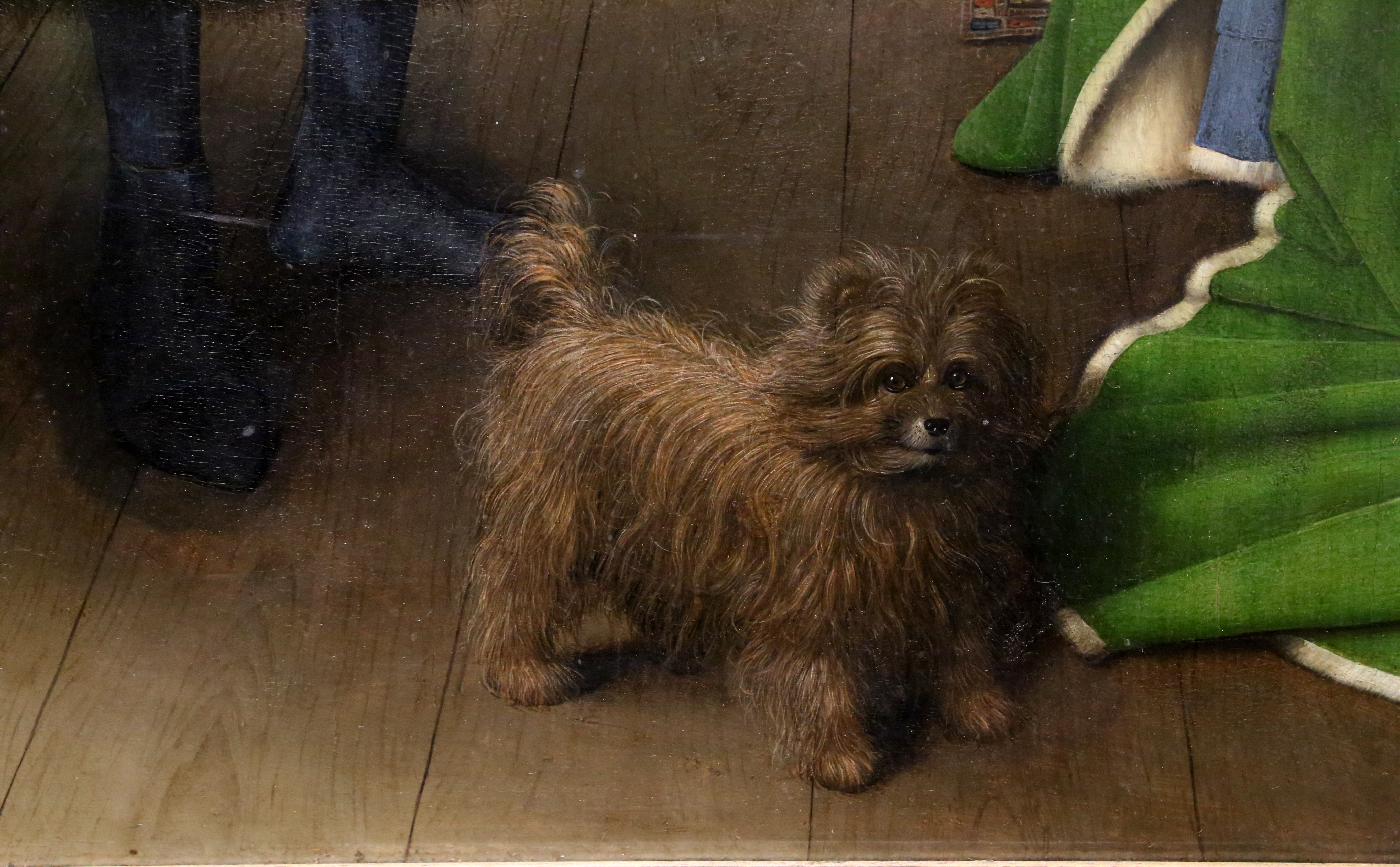 The Arnolfini Portrait